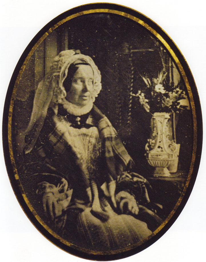 Portrait of Marie Louise, Duchess of Parma (1791-1847) 56 y.o.